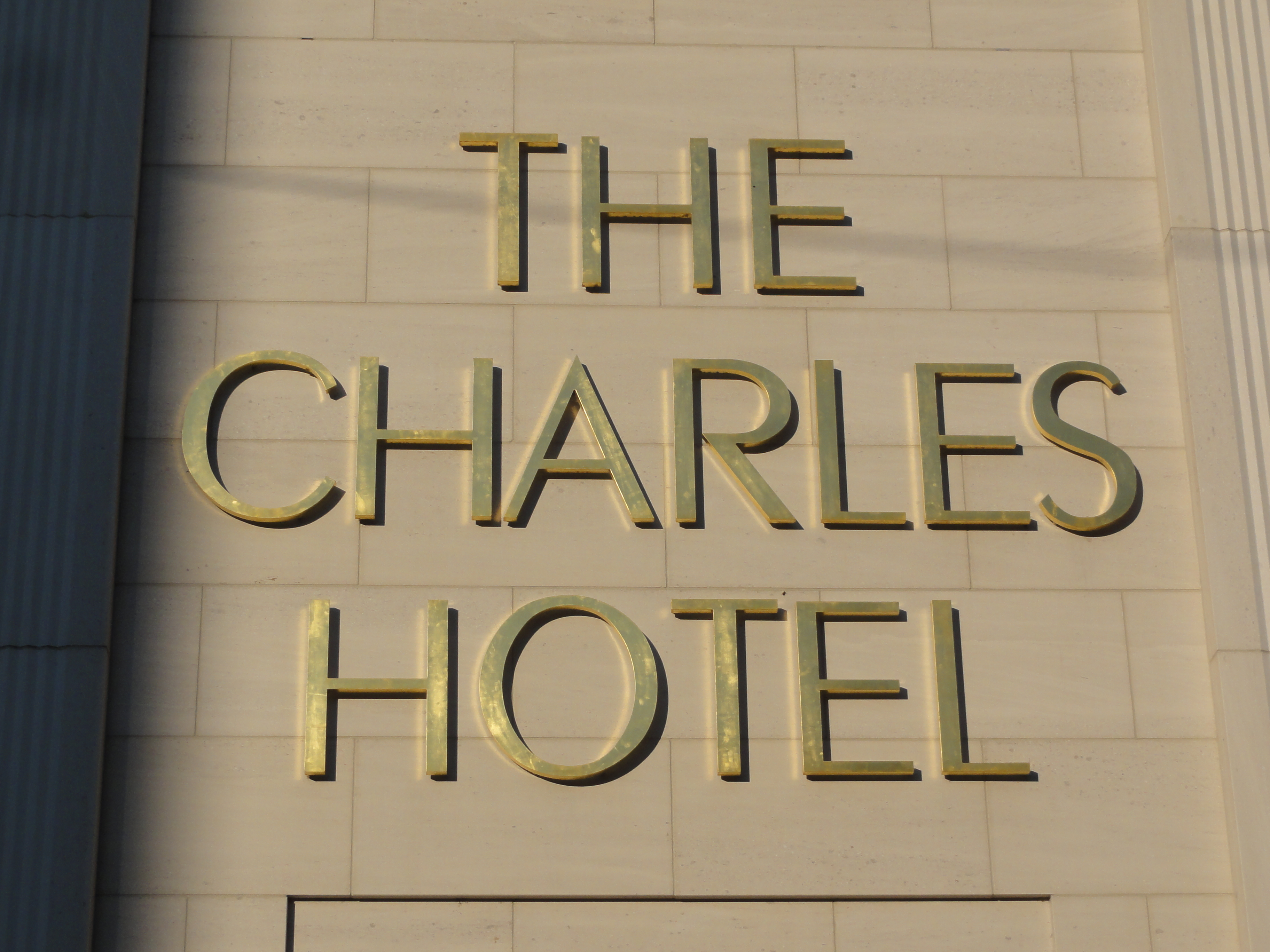 "The Charles Hotel München" — lettering